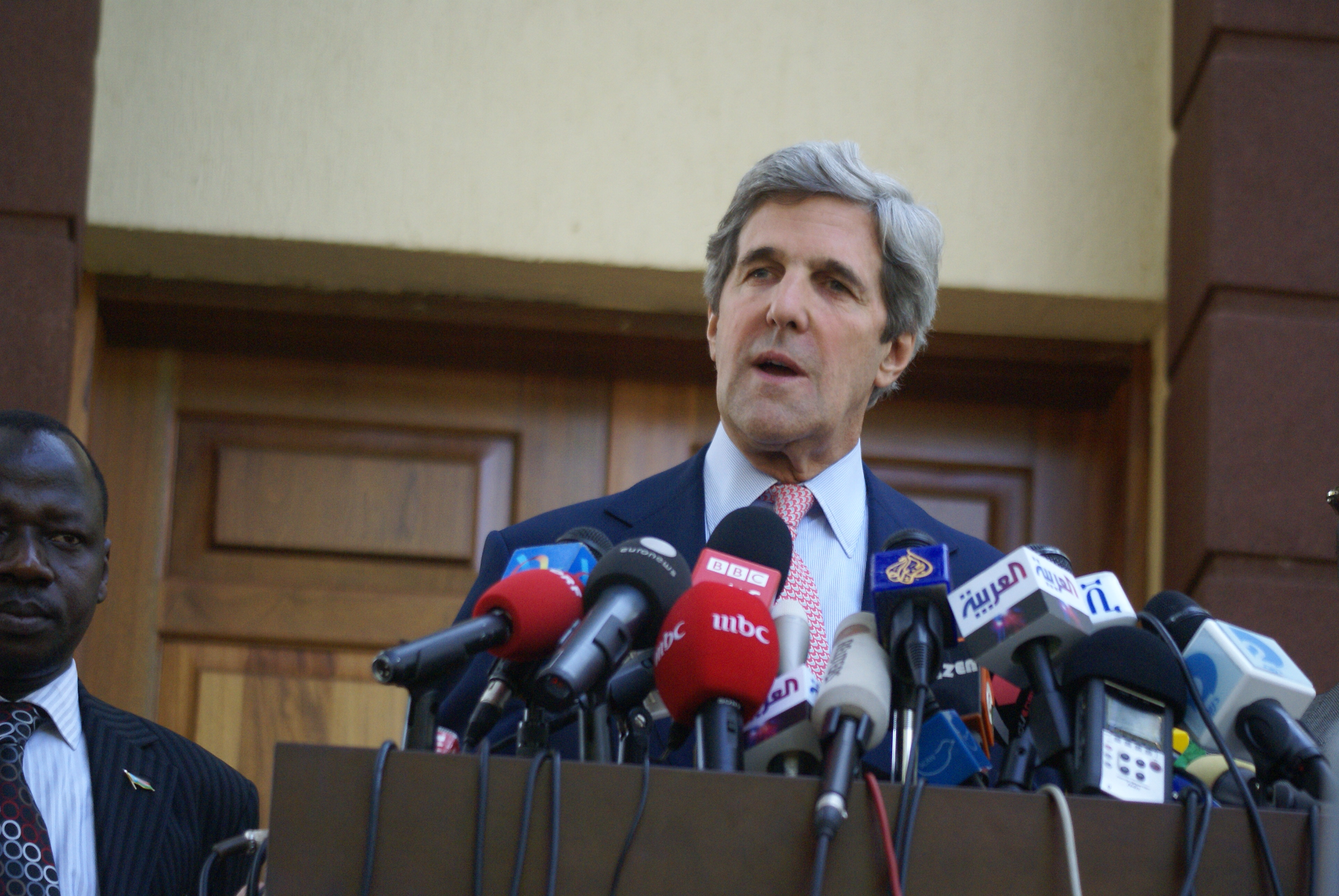 Kerry watched Kiir cast his vote and said that the referendum represented a "new chapter" for Sudan.